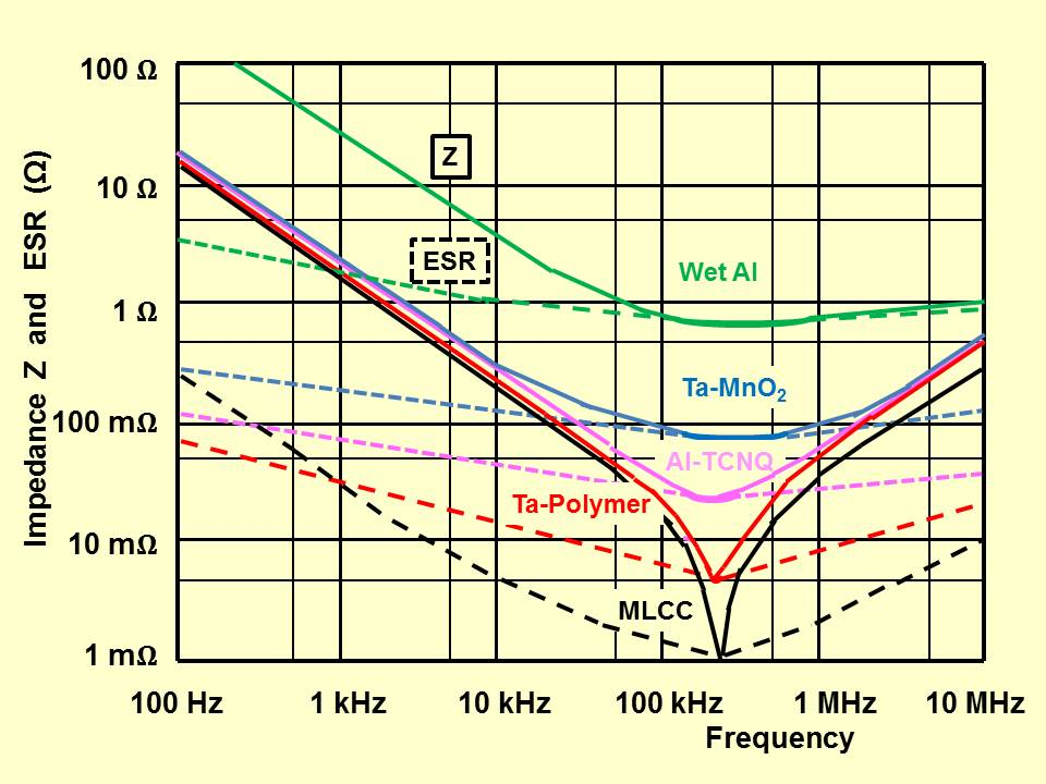 Comparization of impedance and ESR as function of the frequency for different polymer capacitors